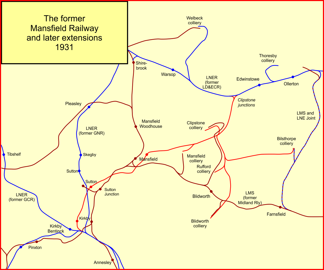 System map of the Mansfield railway and later extensions, Nottinghamshire UK 1931